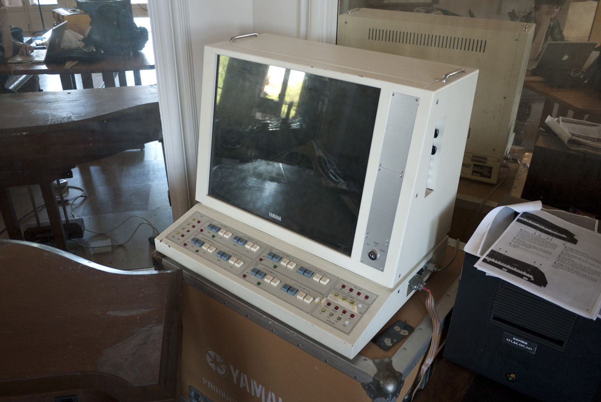 The programming computer for Yamaha's first FM synthesizer GS1. (wedged between GS1 and a NeXT) CCRMA, Stanford University